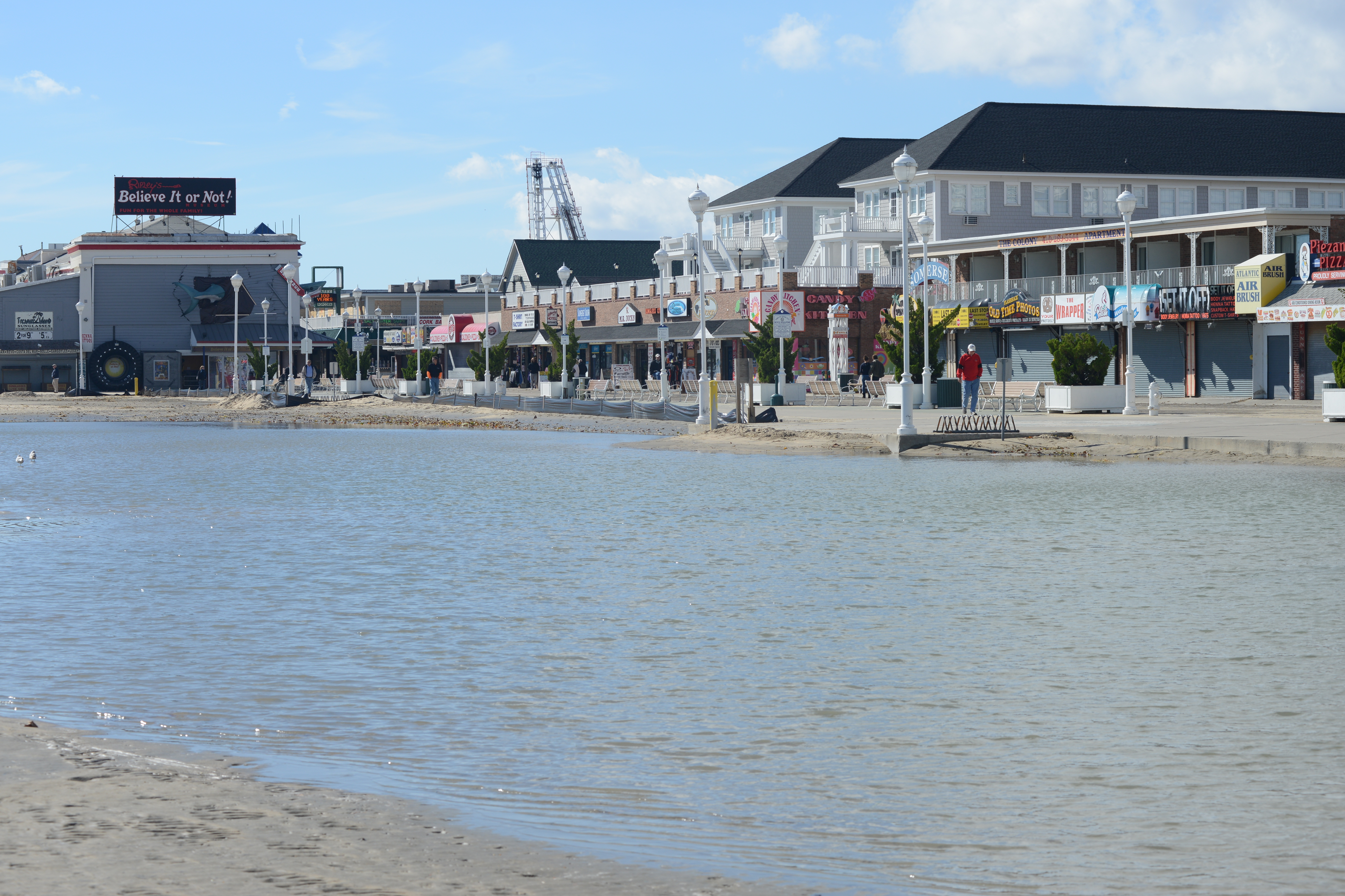 Governor O'Malley Tours hurricane Sandy damage in Ocean City Maryland by Tom Nappi at Ocean City boardwalk, Maryland